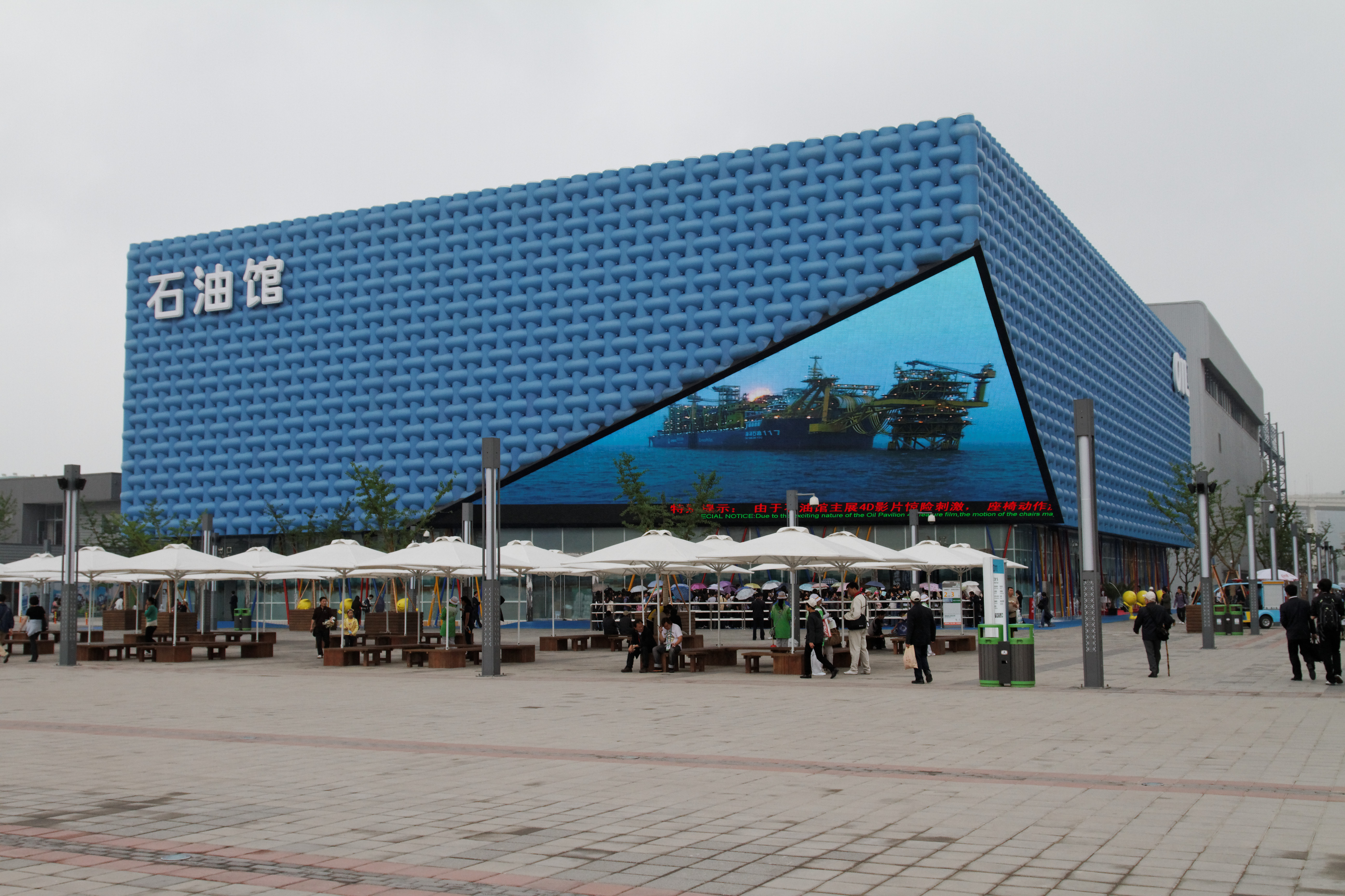 Oil Pavilion (China National Petroleum Corporate Pavilion), Expo 2010